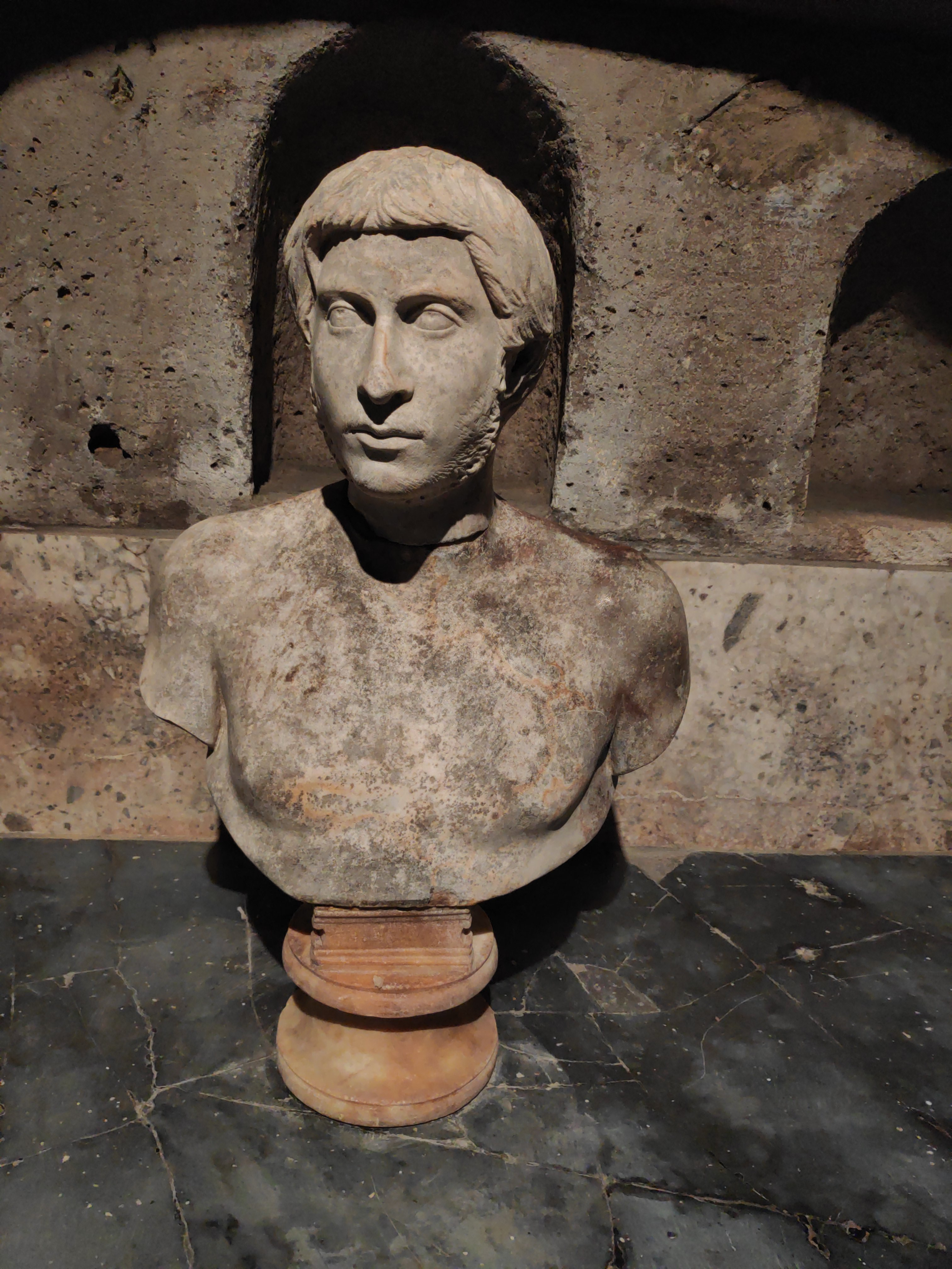 Sarcophagus of the Römergrab Köln-Weiden